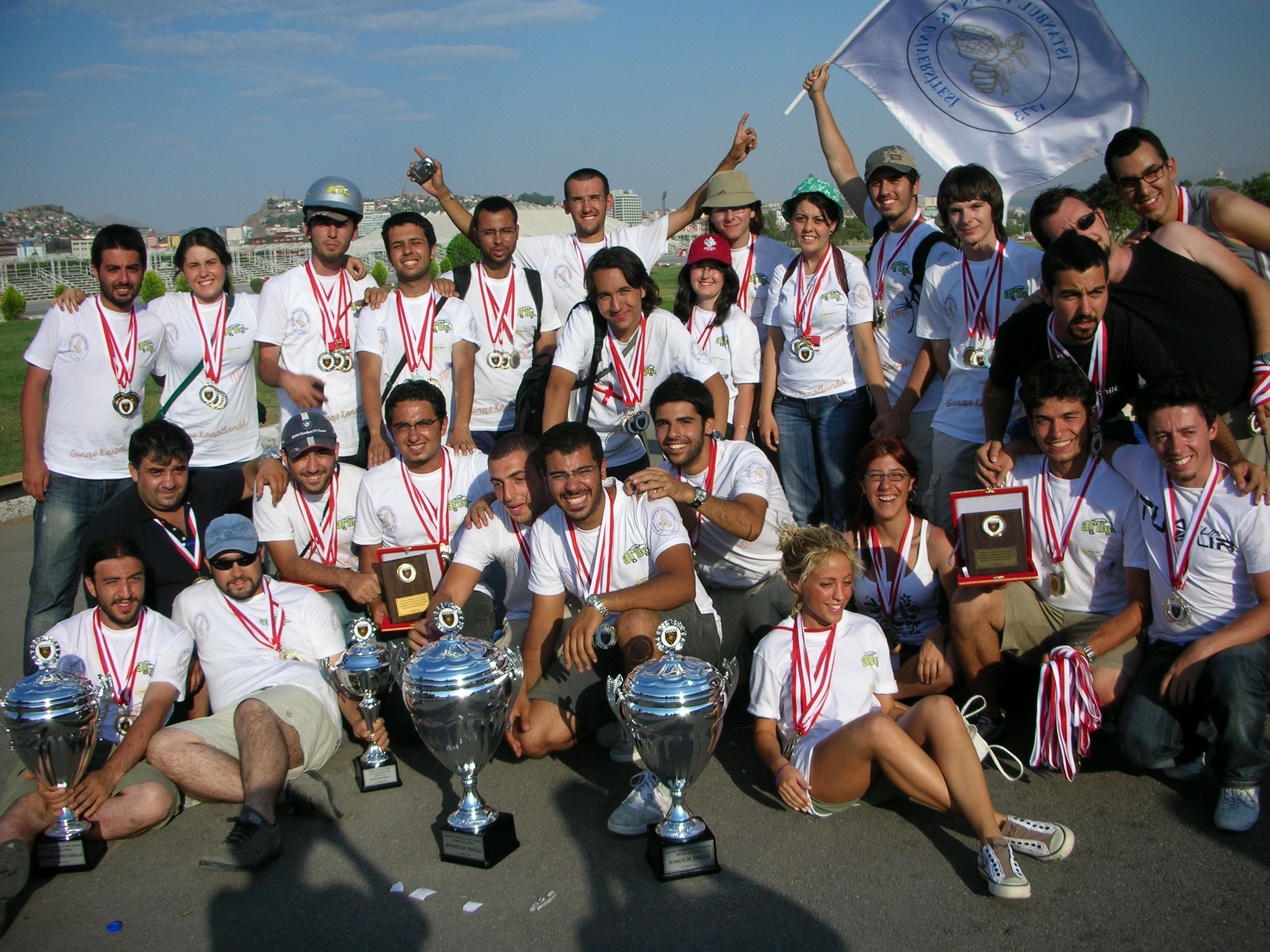 2007 formula-g